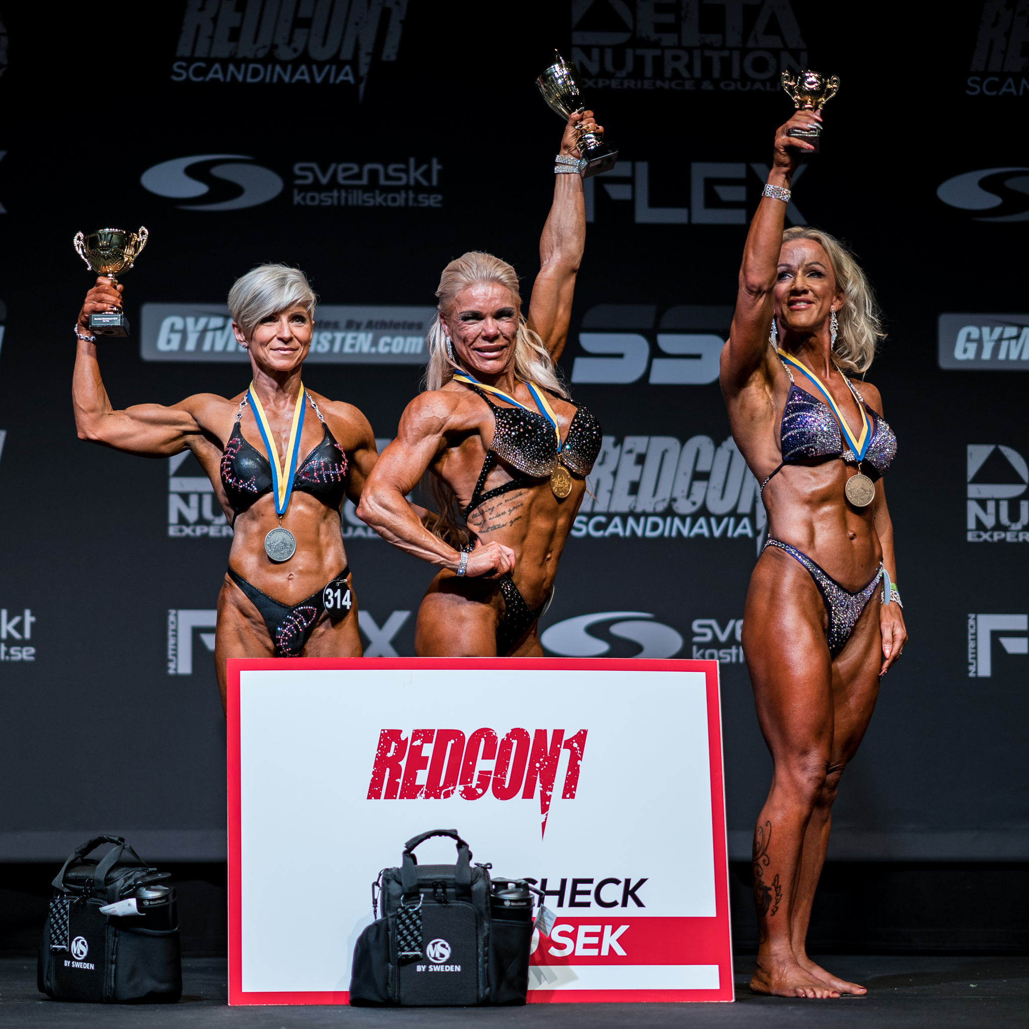 1. Jennie Johansson #316 2. Jasmina Blagojevic #314 3. Camilla Hasselkvist Niemelä #318